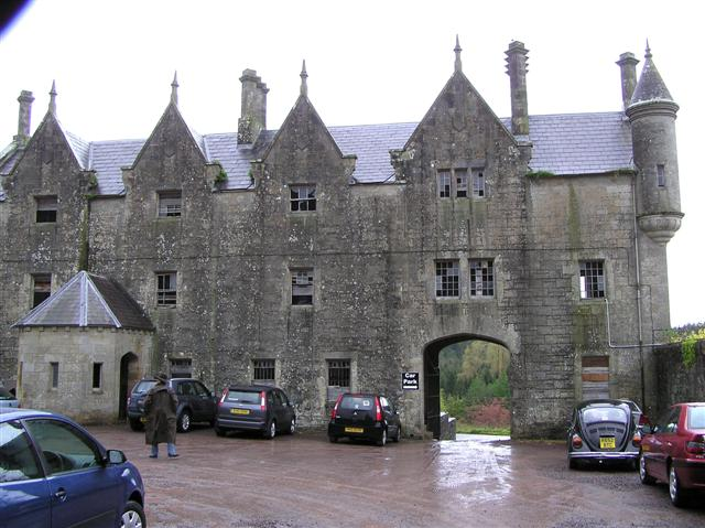 Parkanaur House Looking north in the enclosed yard